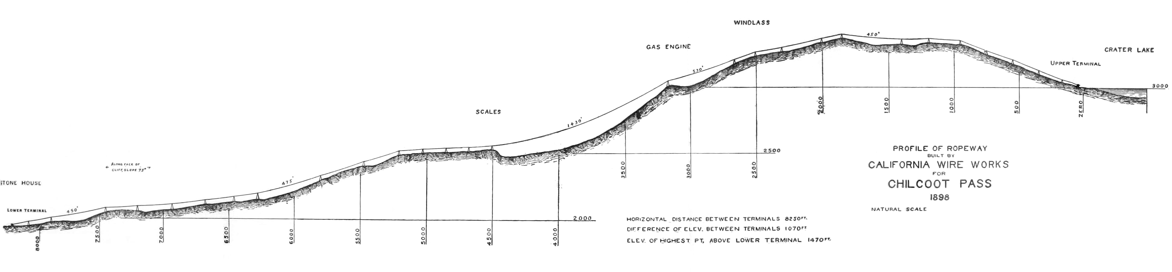 Scale elevation drawing of an aerial tramway / wire ropeway at the Chilkoot Pass at the border of Alaska and British Columbia, built in 1898 as part of the Klondike Gold Rush. One of several from a pamphlet for the California Wire Works.